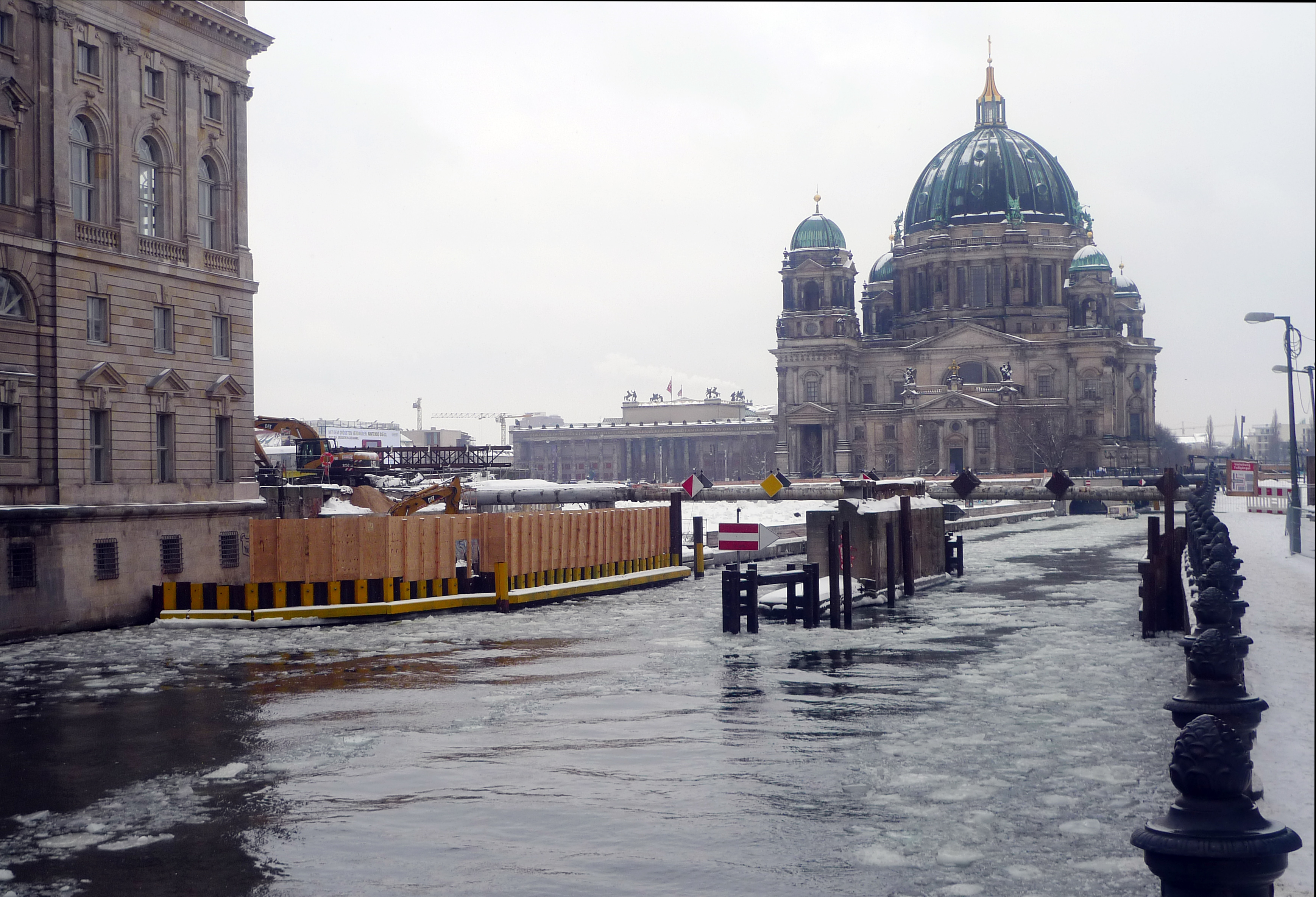 Rathausbrücke February 2010